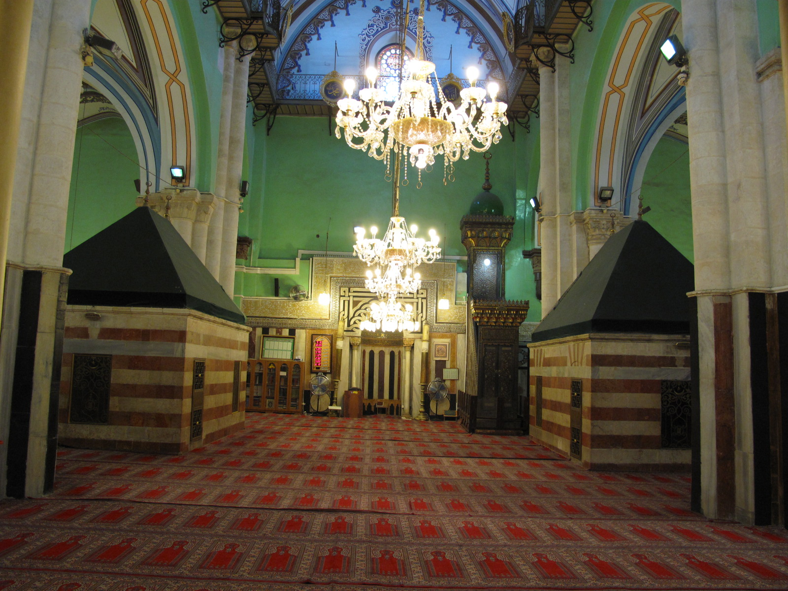 Photo taken by myself in the Cave of the Patriarchs (Hebron) on October 25, 2010 Mosque with cenotaphs of Isaac (right) and Rebecca (left)